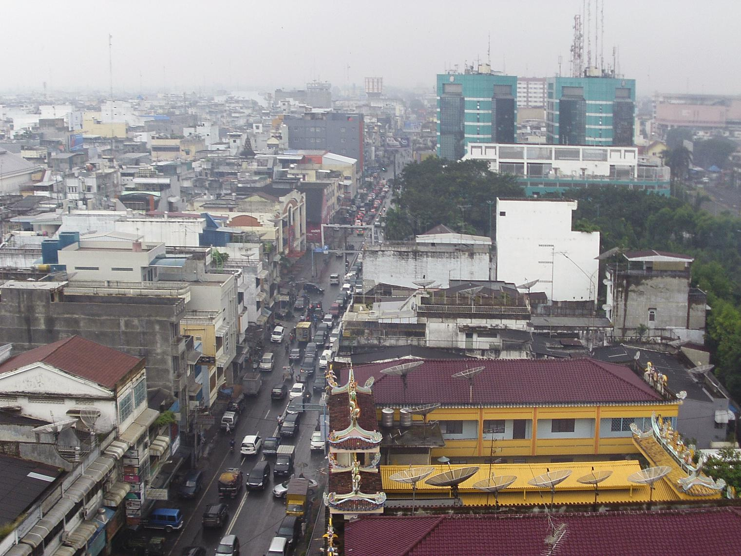 Cityscape, Medan, Sumatra, Indonesia